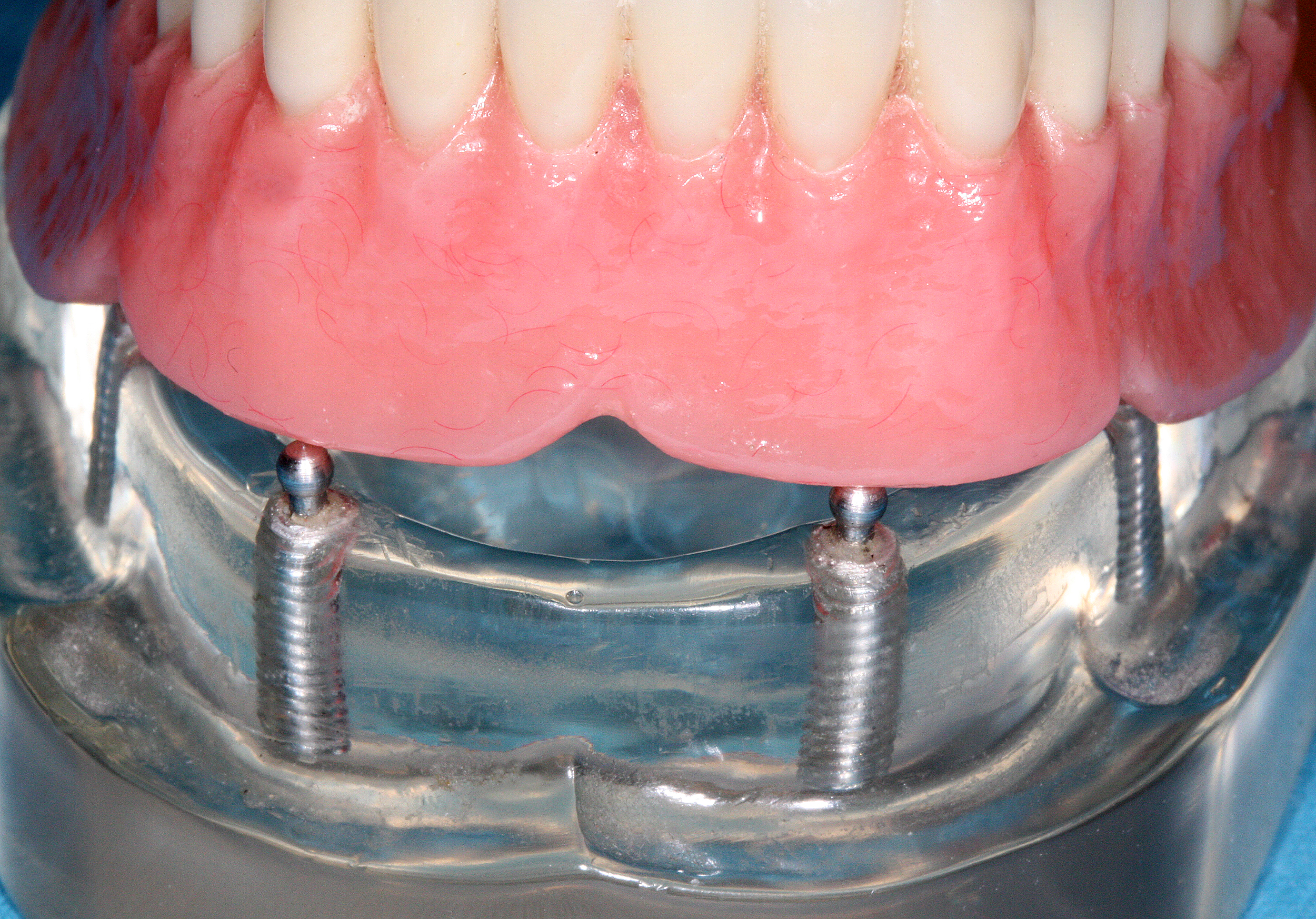 model of an implant retained overdenture